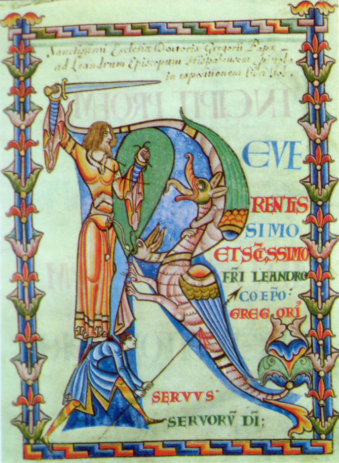 Historiated initial R from the frontispiece of a 12th-century manuscript of St. Gregory's Moralia in Job, Dijon, Bibl. Municipale, MS 2